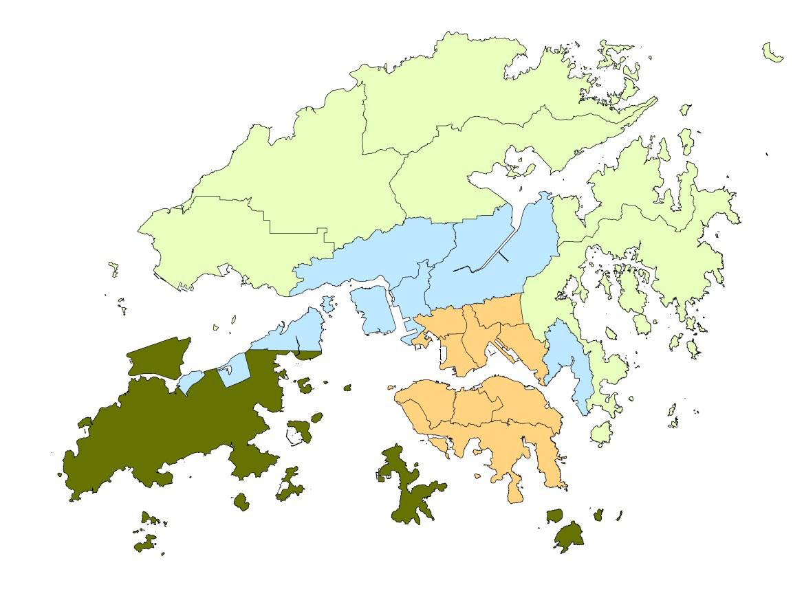 Public Housing Regions defined by Hong Kong Housing Authority